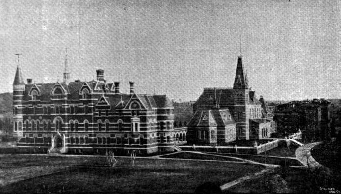 The Columbia Institution for the Deaf, now Gallaudet University, circa 1893. The photograph was probably taken from the roof of the president's house.